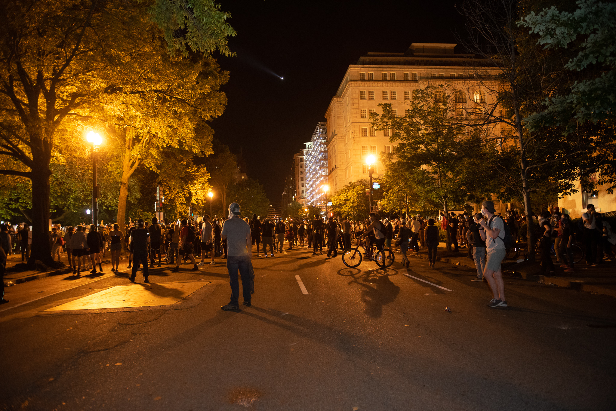 George Floyd protests in Washington DC. H St. By Lafayette Square.